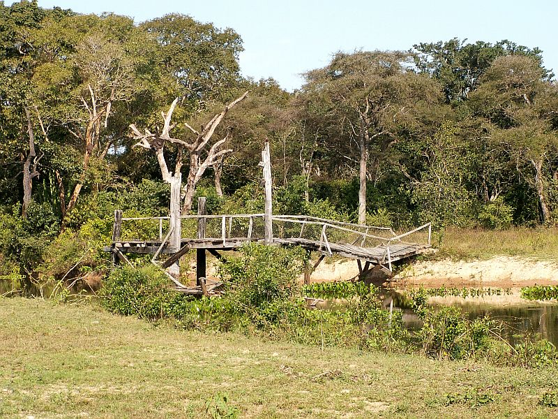 bridge in Pantanal, Brazil